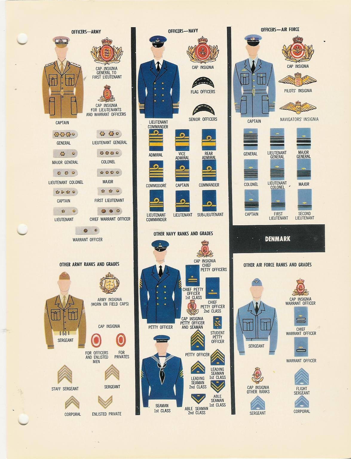 Rank insignia of the Danish Armed Forces